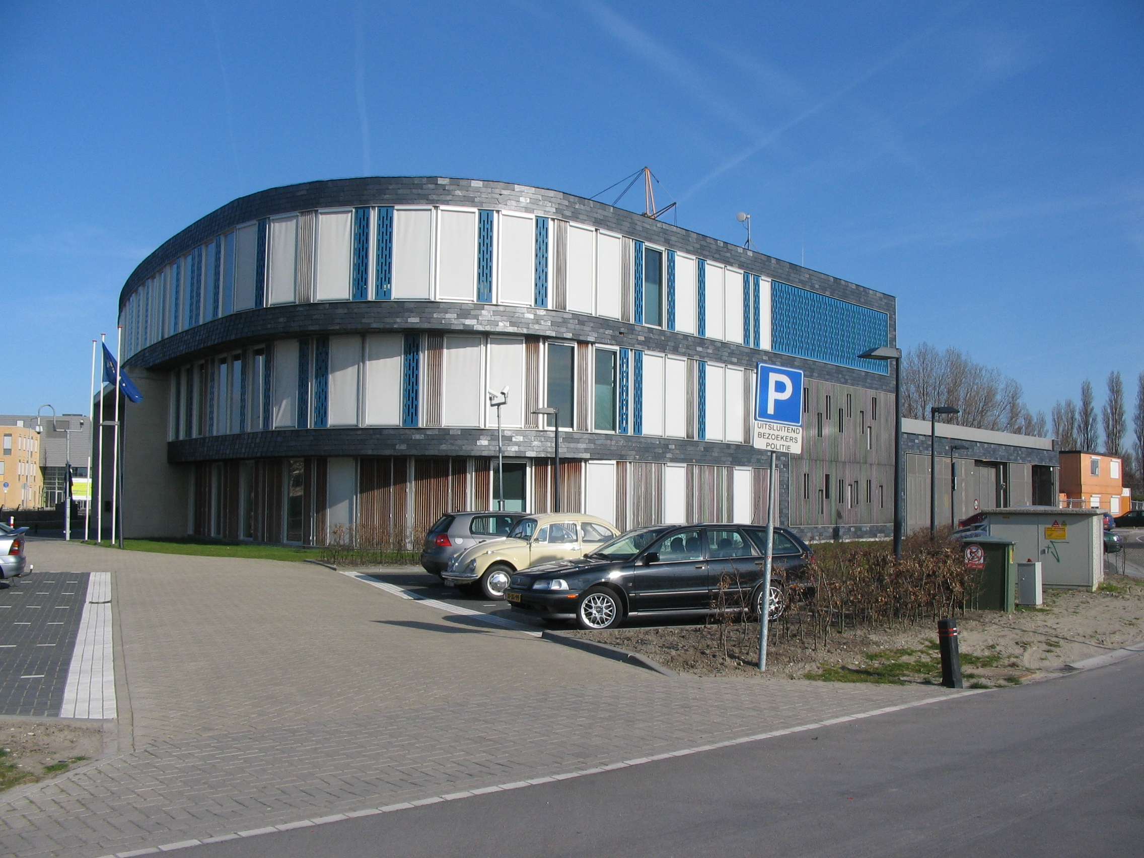 The new police station, Westland, The Netherlands